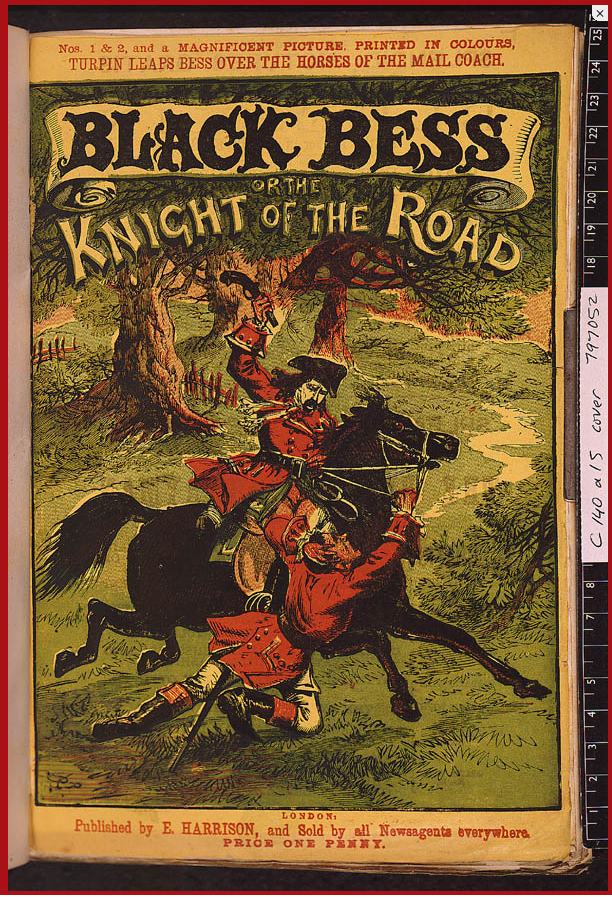 Black Bess; or, The knight of the road. A tale of the good old times ("Price: one penny")